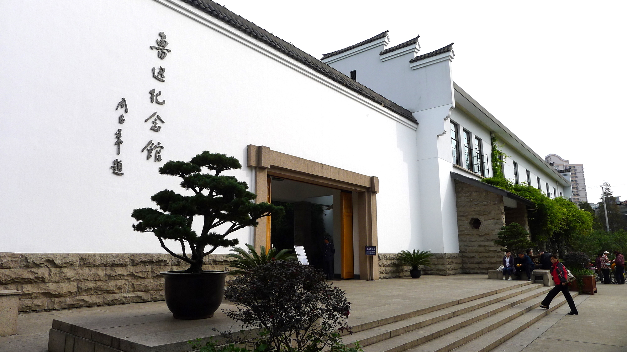 Shanghai Luxun Museum